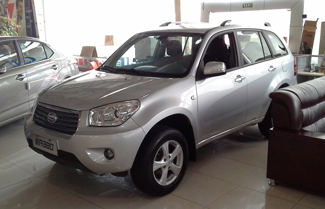 Jonway A380 facelift photographed in Chengdu, Sichuan province, China.